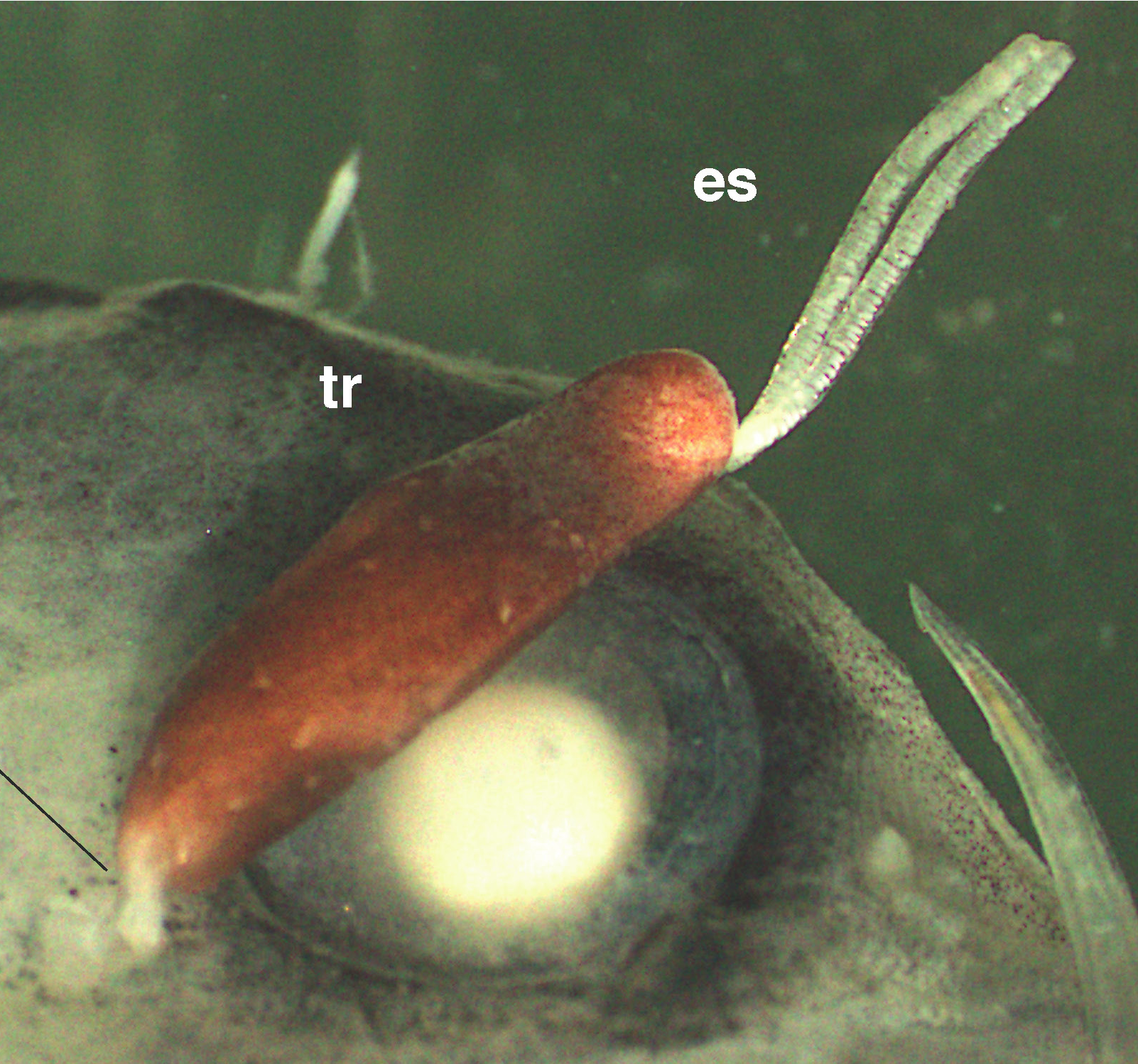 Figure 1 of paper, part. Protosarcotretes nishikawai Ohtsuka, Lindsay & Izawa, 2018 adult female (holotype). A. whole specimen, in-situ on host, after fixation.